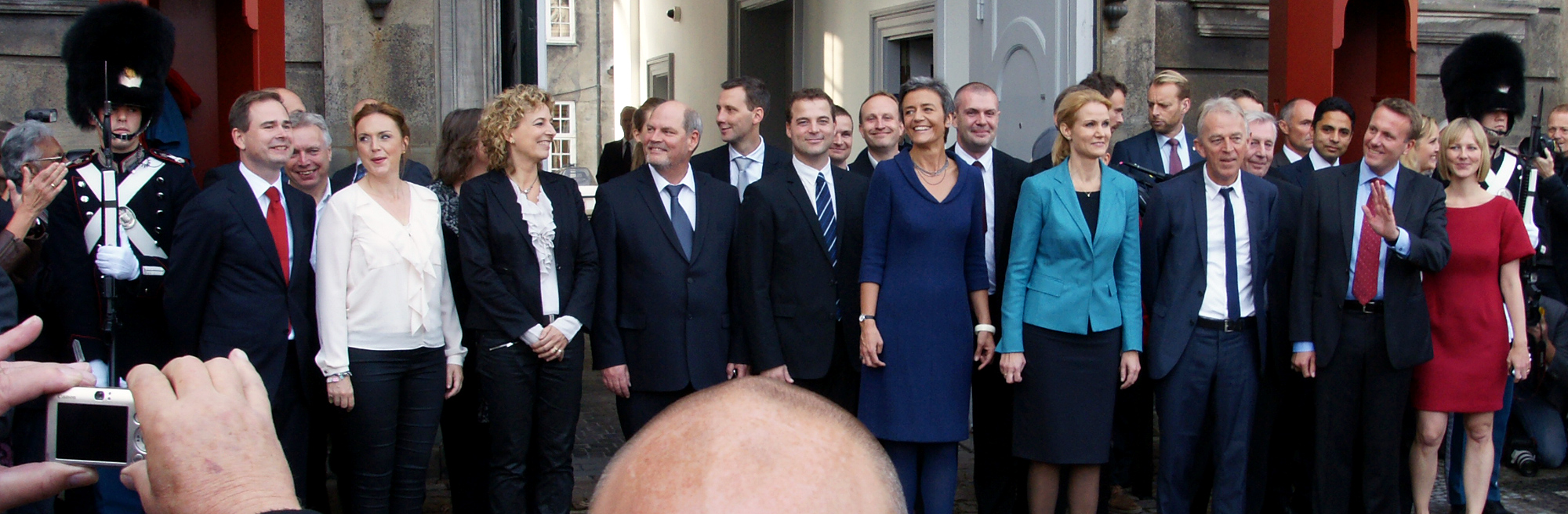 Helle Thorning-Schmidt, new Danish primeminister presenting the new Danish 3-party government (Social Democrats, Social Liberal Party and Socialist People's Party) together with the two other political leaders Margrethe Vestager and Villy Søvndal. According the tradition the new government is presented outside the royal residence at Amalienborg, Copenhagen after formal presentation to Queen Margrethe on October 3, 2011